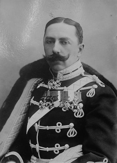 Jaime de Borbón y de Borbón-Parma, called Duke of Madrid